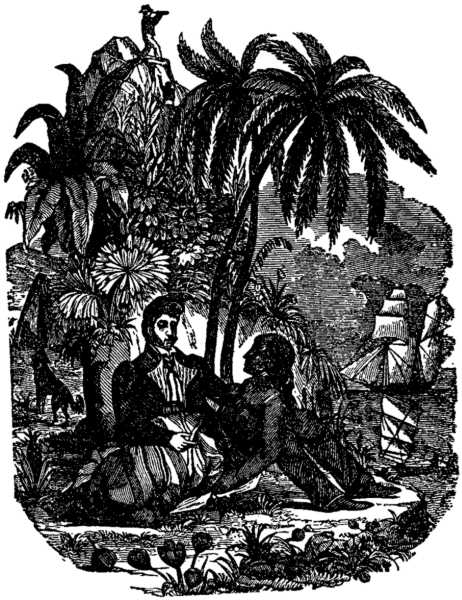 A Pirate and his Madagascar wife as depicted in The Pirates Own Book by Charles Ellms.